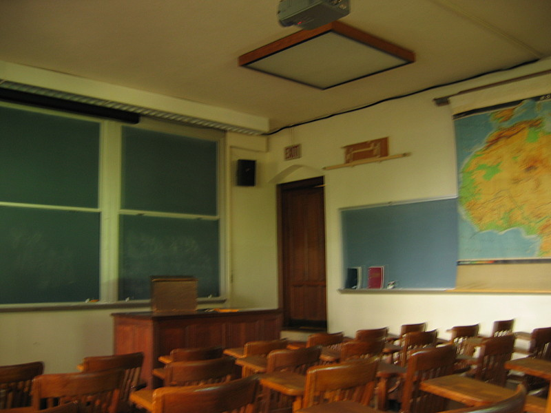 A university classroom. (Jones Hall at Princeton University.) © 2005 Joseph Barillari